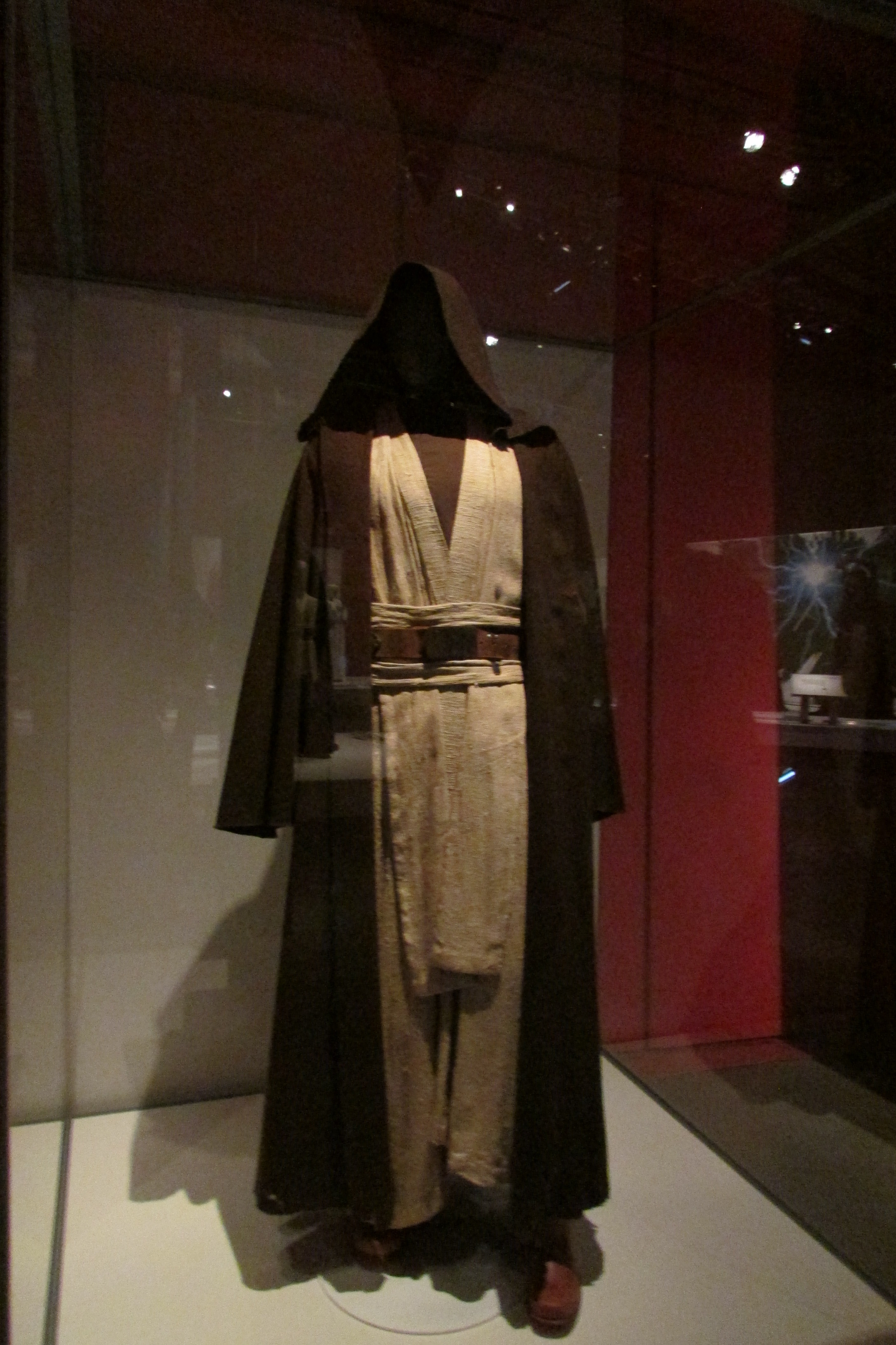 Costume of Obi-wan Kenobi at the EMP in Seattle.